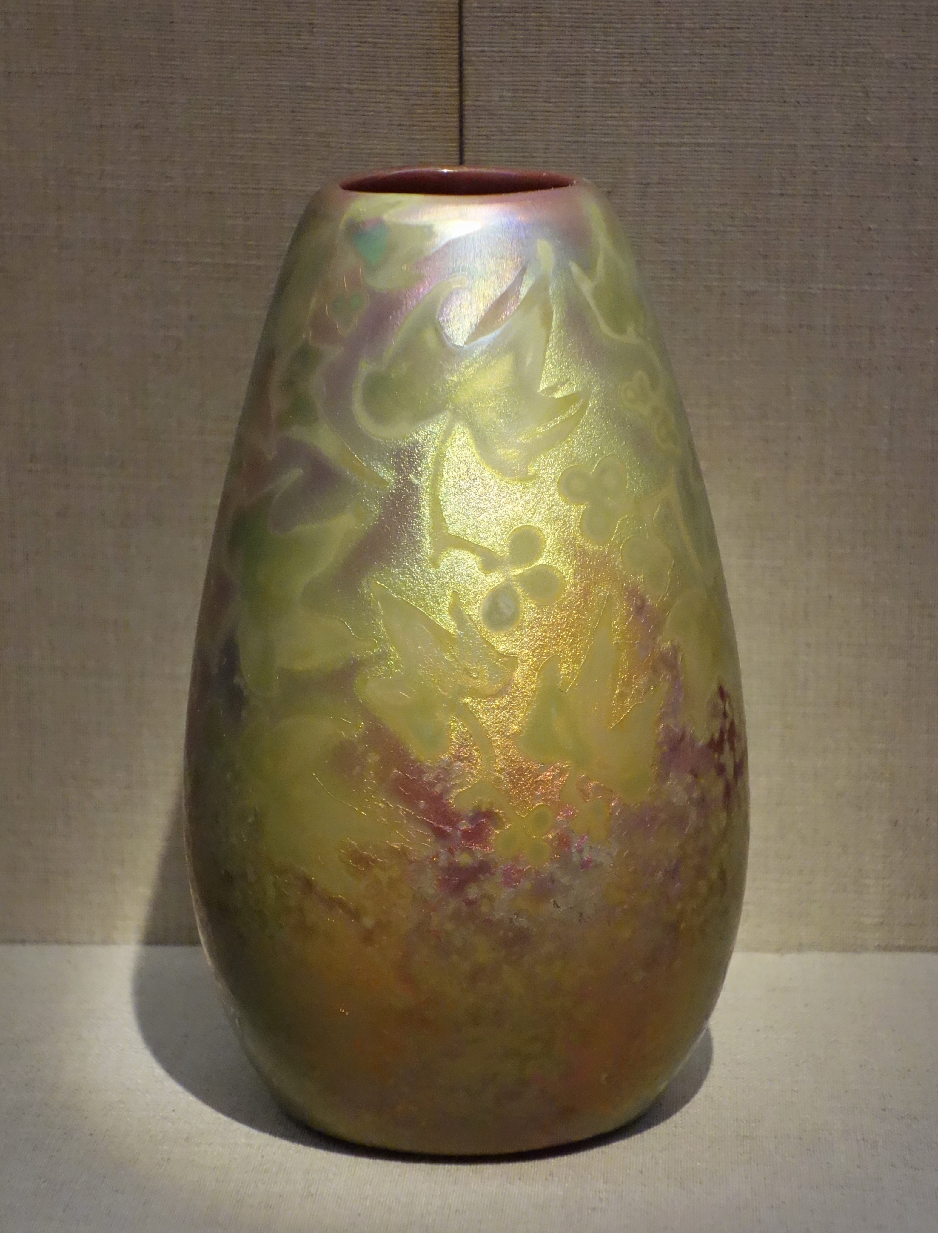 Exhibit in the De Young Museum, San Francisco, California, USA. This artwork is in the public domain because the artist died more than 70 years ago.